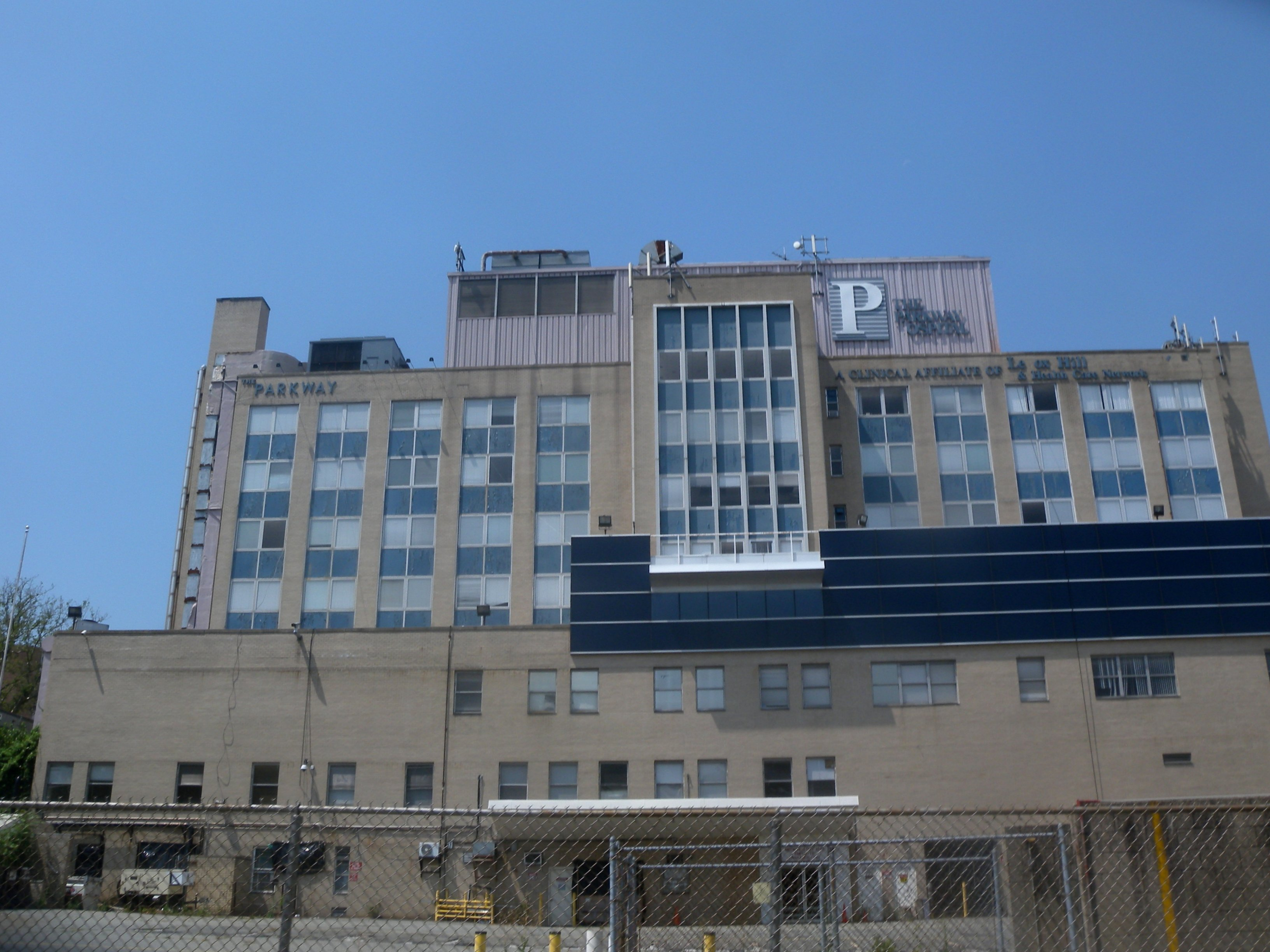 Looking west at closed hospital on a sunny midday.